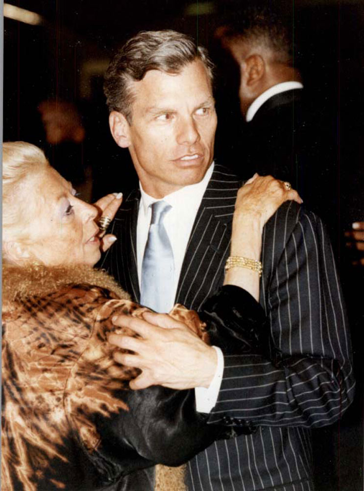 Annette Wolfe and James C. Metzger circa 1990